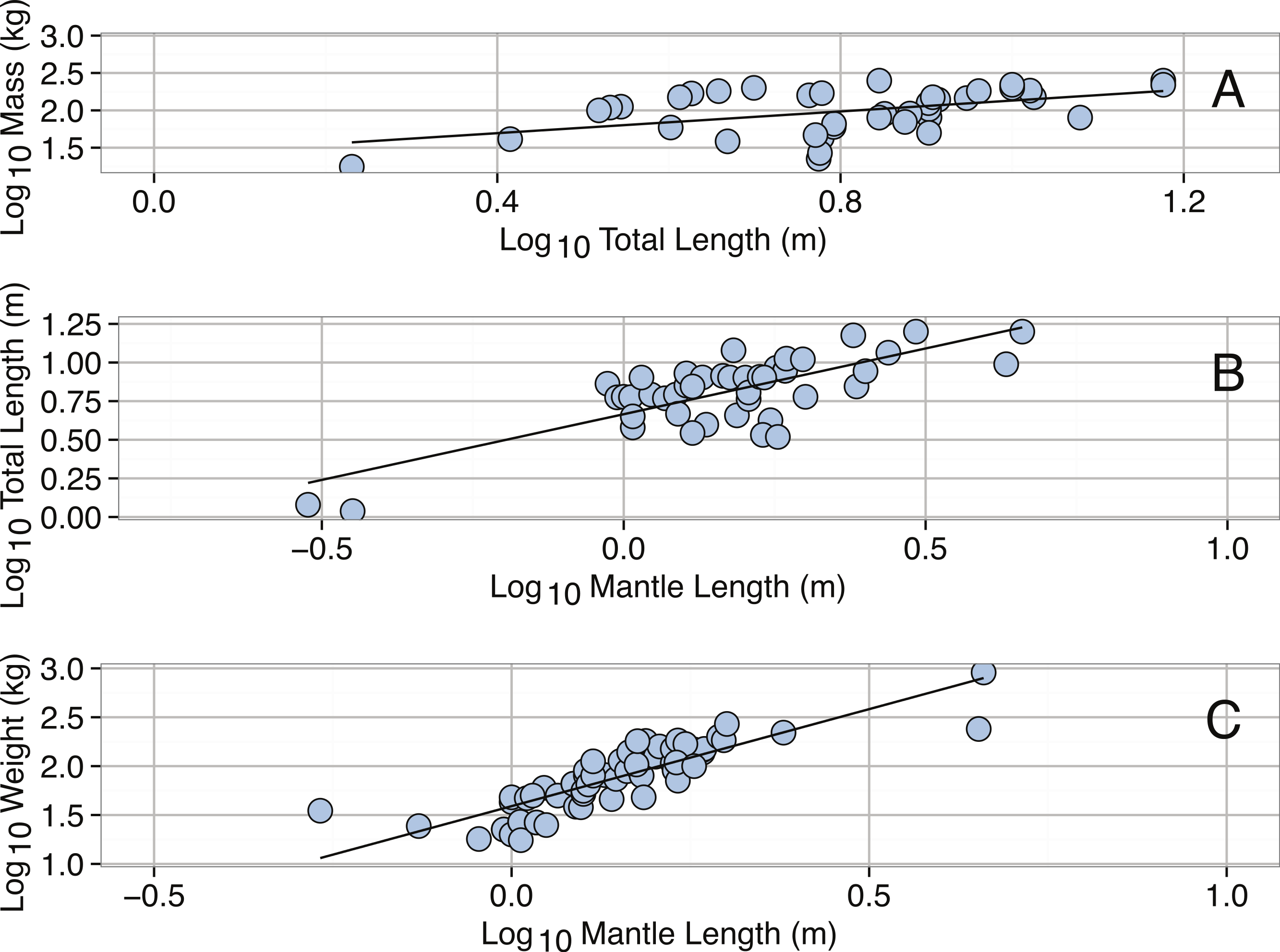 Figure 13: Linear regressions for Architeuthis dux. (A) Log10 Total Length (m) and Log10 Mass (kg). (B) Log10 Mantle Length (m) and Log10 Total Length (m). (C) Log10 Mantle Length (m) and Log10 Mass (kg). See Table 2 for regression equations.